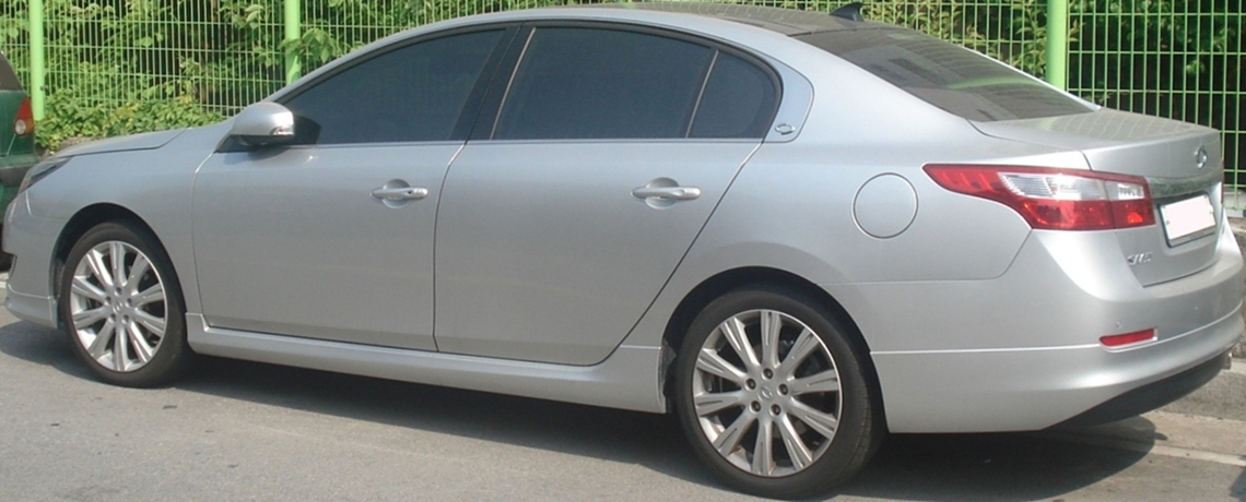 Renault Samsung New SM5